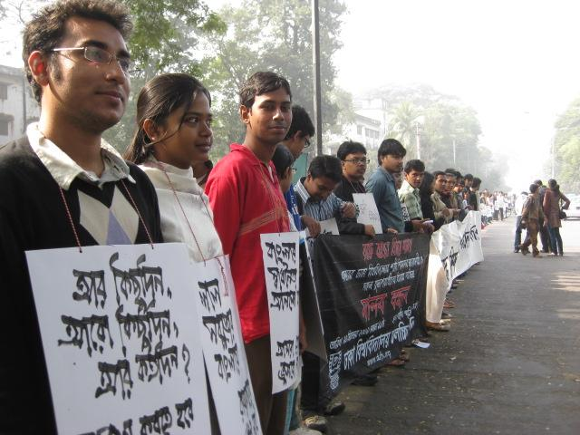 Human chain at VC Chattar, University of Dhaka 13 December 2009 for demanding trial of war criminals of 1971